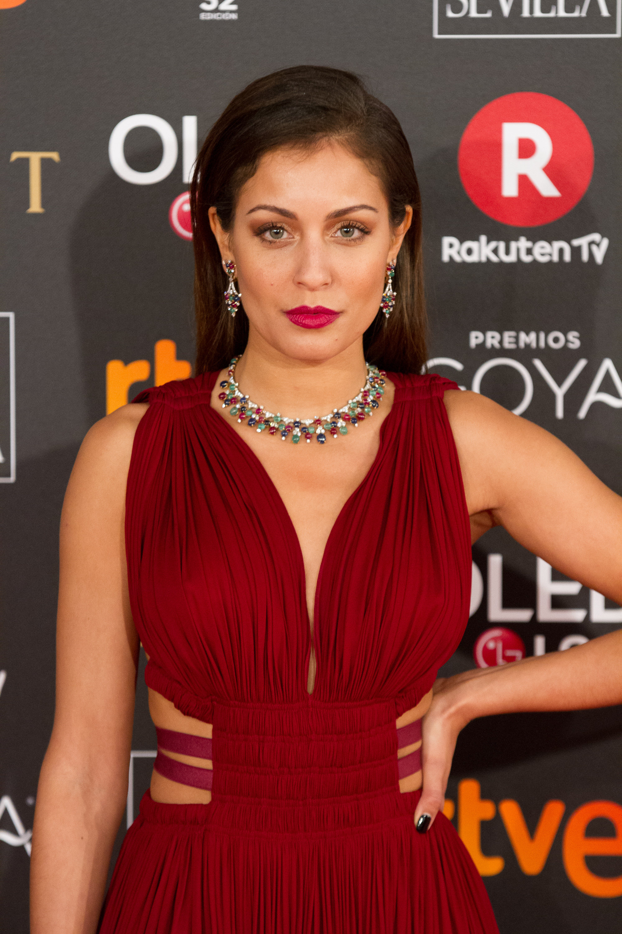 32nd Goya Awards, 2018.